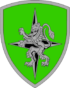 Central Army Group [CENTAG] insignia